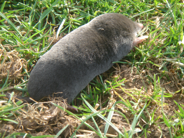 Mole